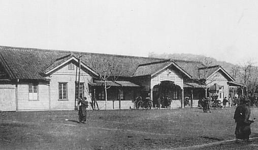 Kumamoto Station in Meiji era